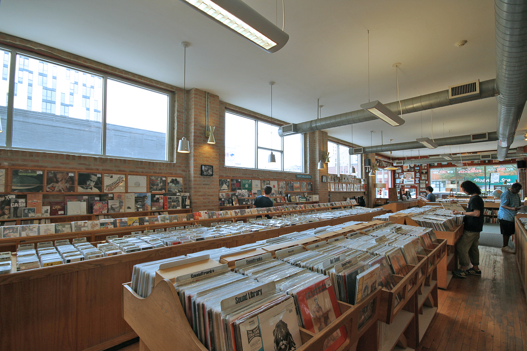 Interior of Dusty Groove during weekend operations.